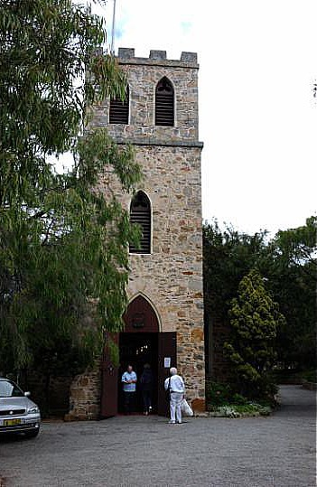 ST. JOHN’S ANGLICAN CHURCH in Albany, Western Australia, STARTED IN 1848 AND FIRST ANGLICAN CHURCH IN WESTERN AUSTRALIA